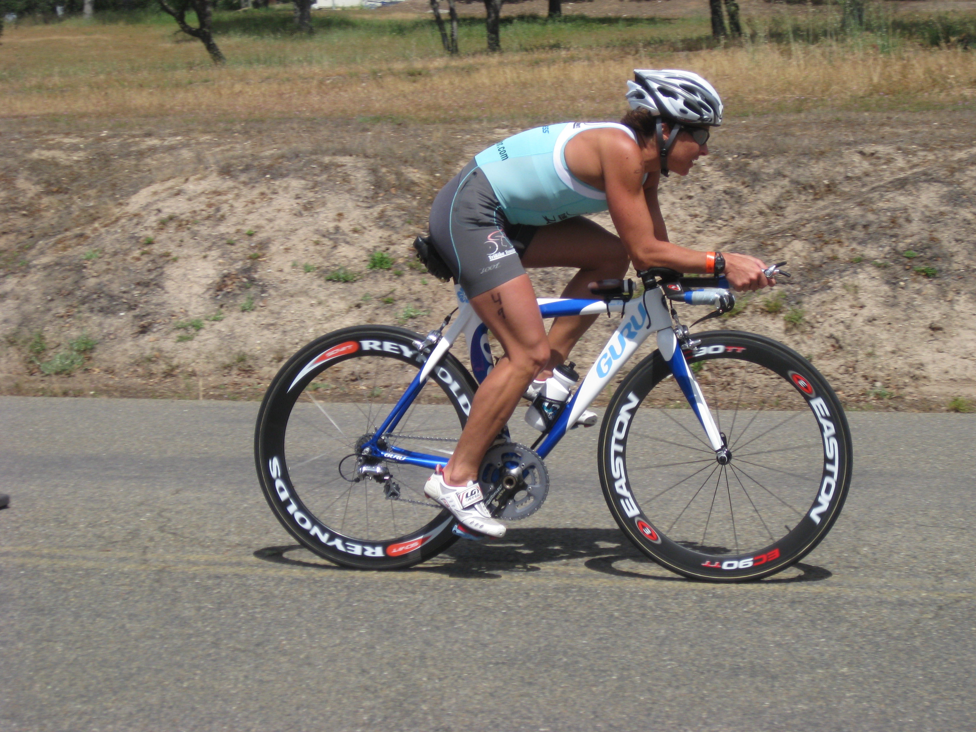 Gina Kehr at 2009 Wildflower Triathlon